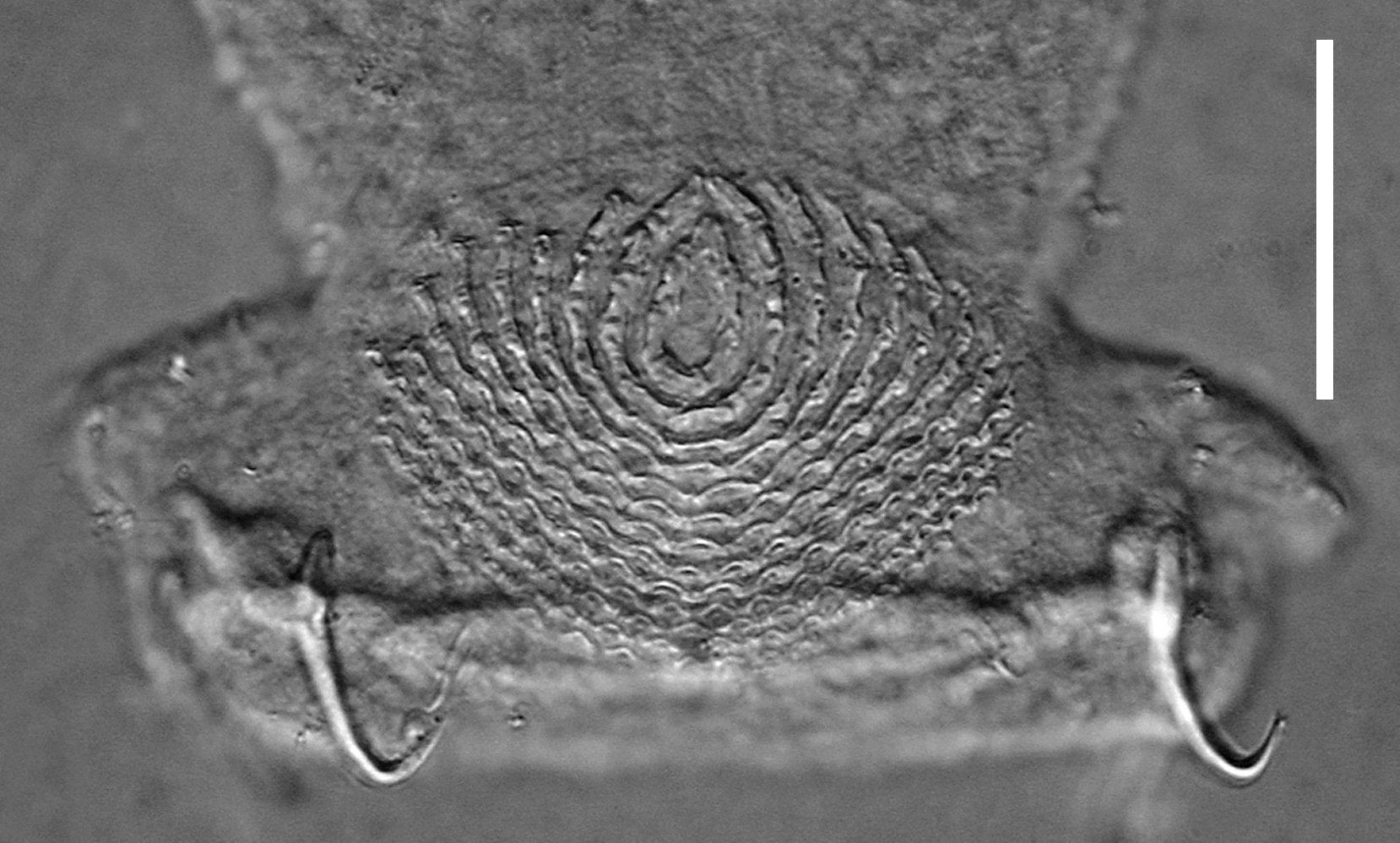 Pseudorhabdosynochus jeanloui Knoff, Cohen, Cárdenas, Cárdenas-Callirgos & Gomes, 2015 (Monogenea, Diplectanidae). Figure 3 of paper Pseudorhabdosynochus jeanloui n. sp. from Paranthias colonus. b, haptor, detail of ventral squamodisc and ventral hamuli, holotype, Hoyer, ventral view. Scale bars: b, 40 μm.